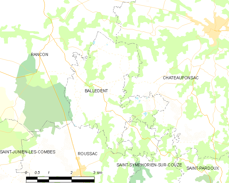 Map of French municipality Balledent